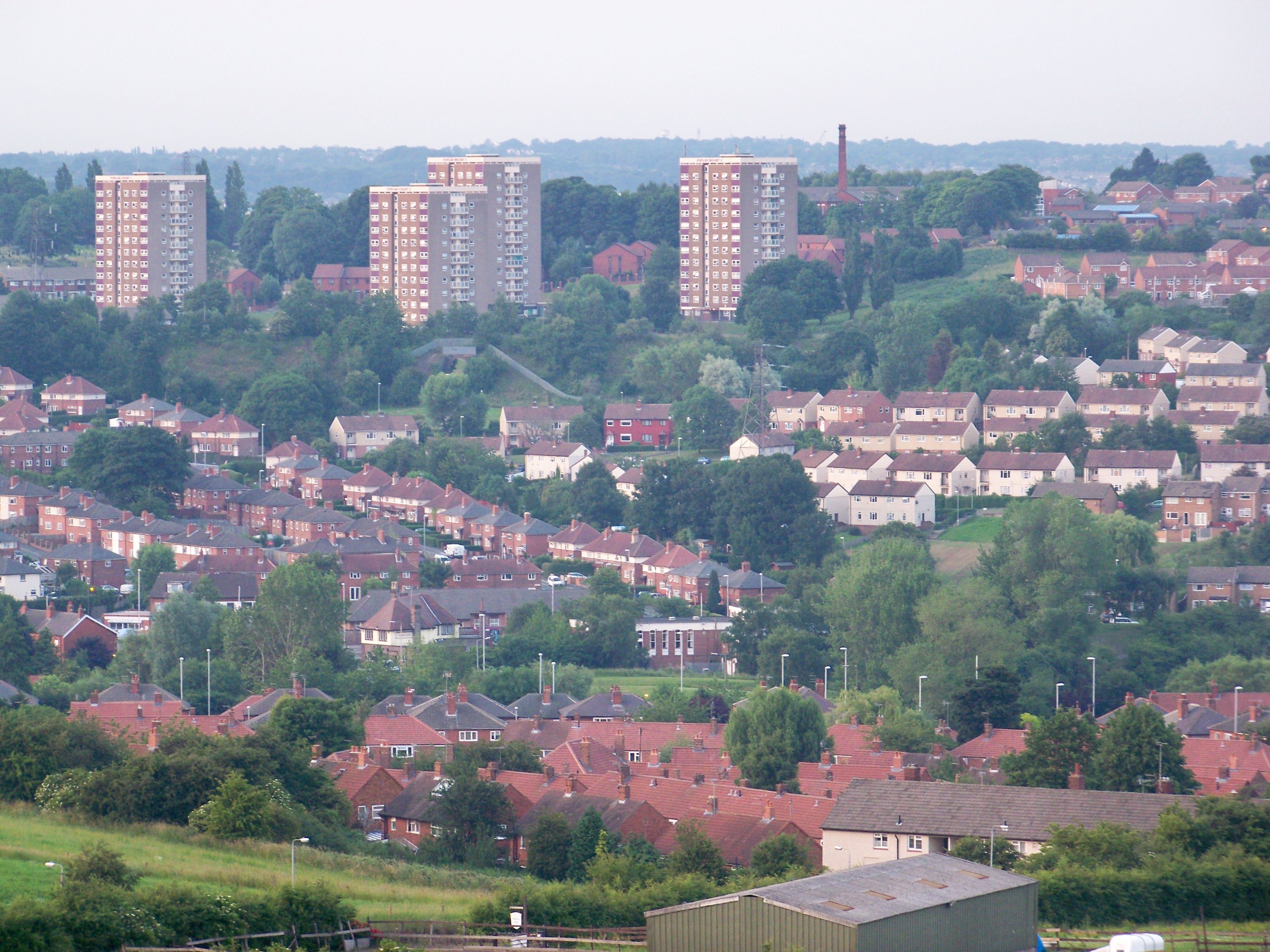 An overview of Western Armley, taken from Hall Lane, Farnley on the evening of Wednesday the 1st July 2009.